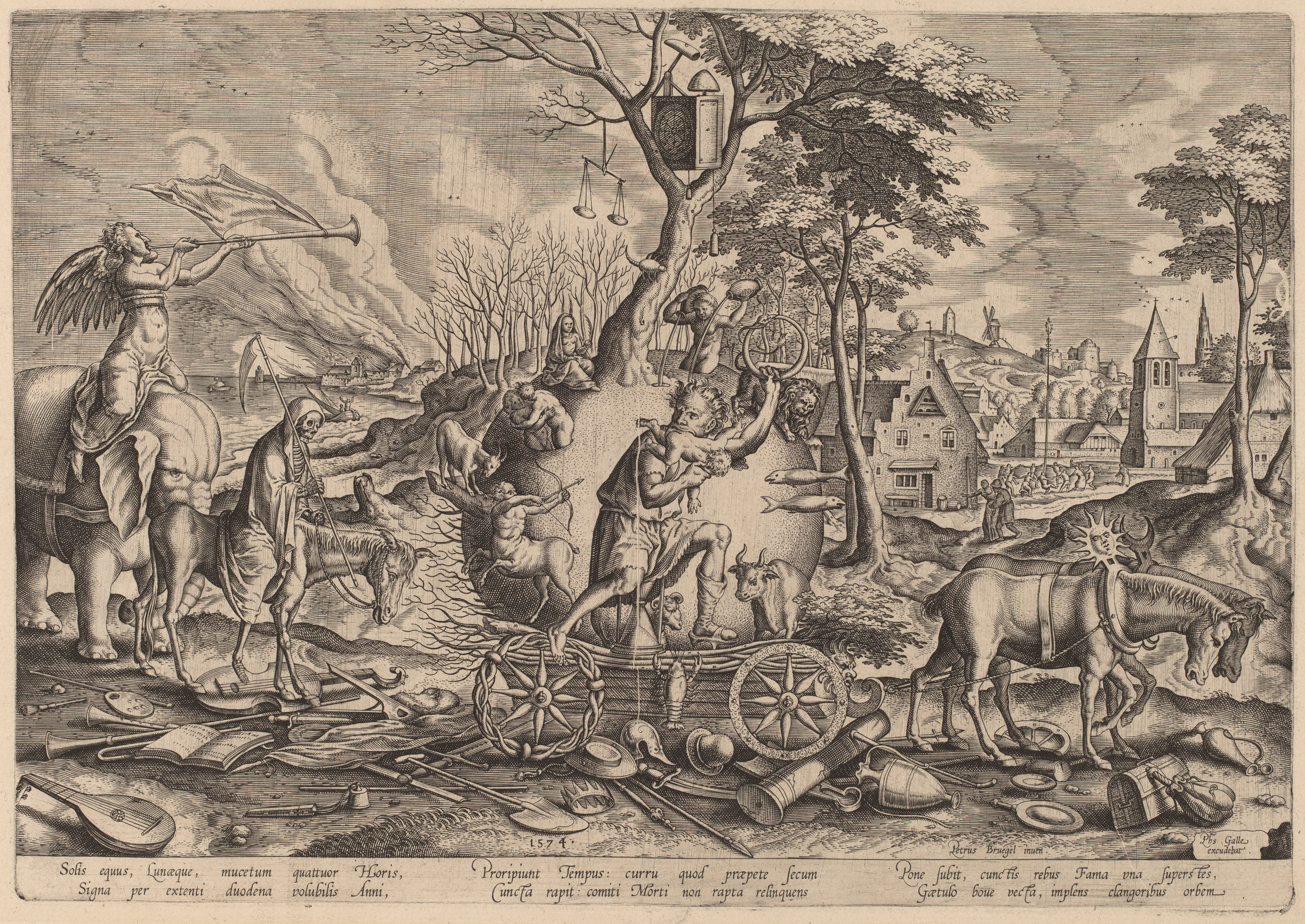 Philip Galle after Pieter Bruegel the Elder (Flemish, 1537 - 1612 ), The Triumph of Time, published 1574, engraving, Rosenwald Collection